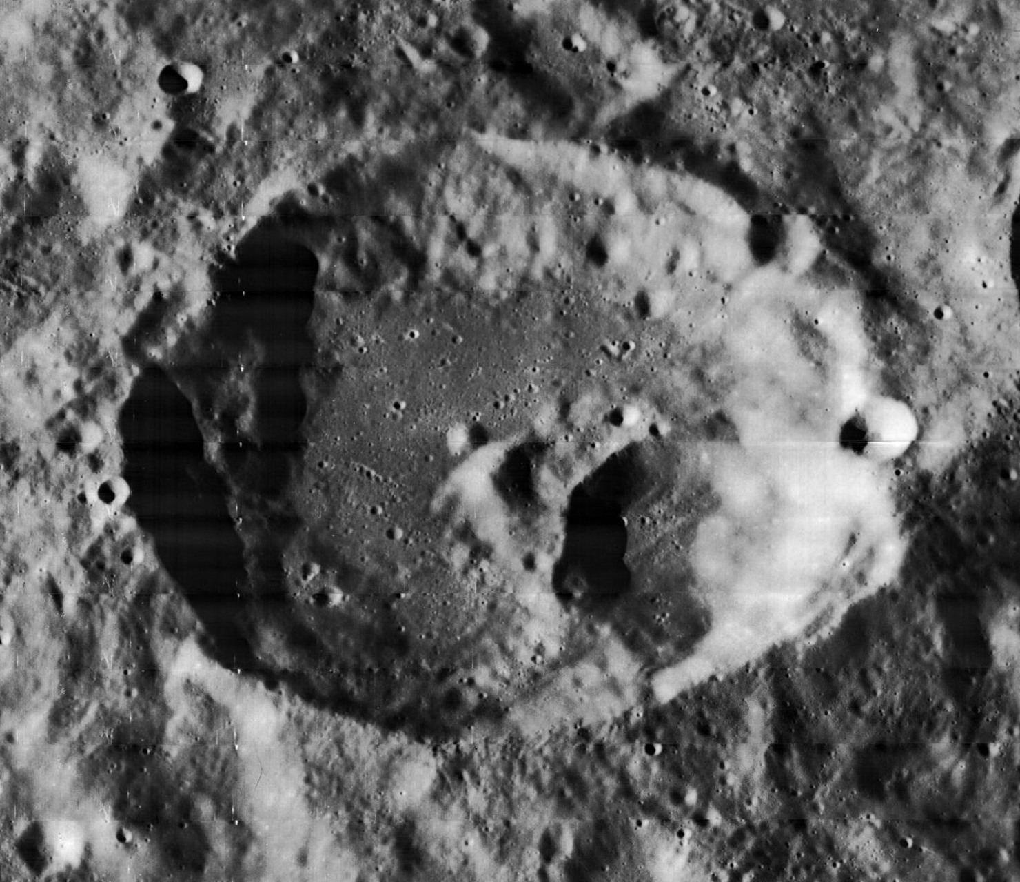 Oblique view of Valier (crater), on the far side of the moon. North at top.